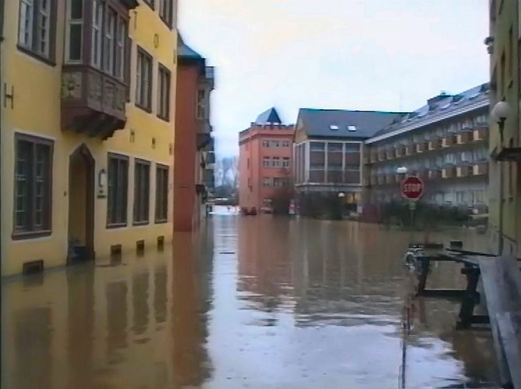 Flood in Koblenz